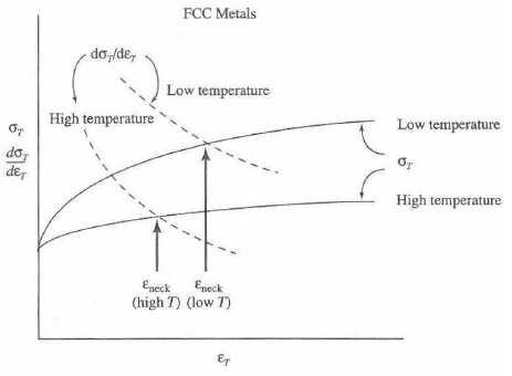 True stress-strain curve and its derivative can show the necking strain at the intersection.